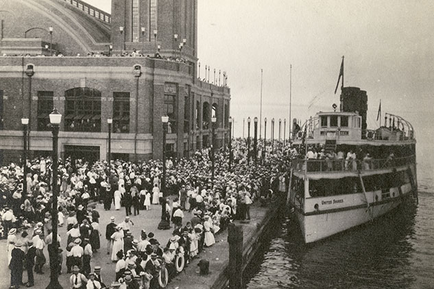 Navy Pier